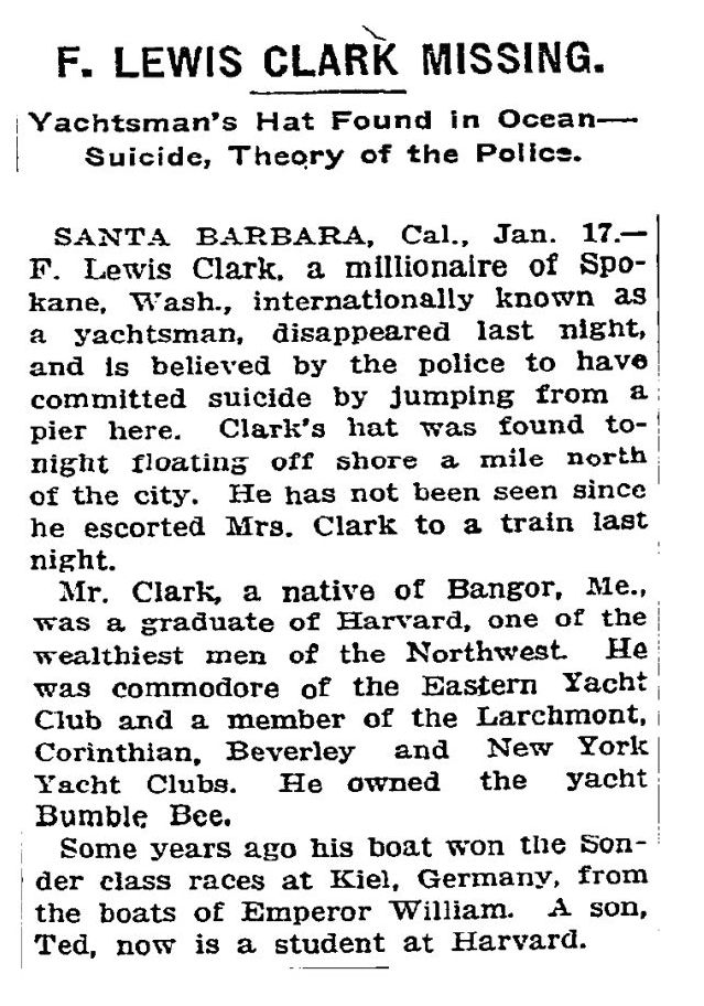 Article in the New York Times, 18 January 1914, regarding the disappearance of American industrialist F. Lewis Clark.